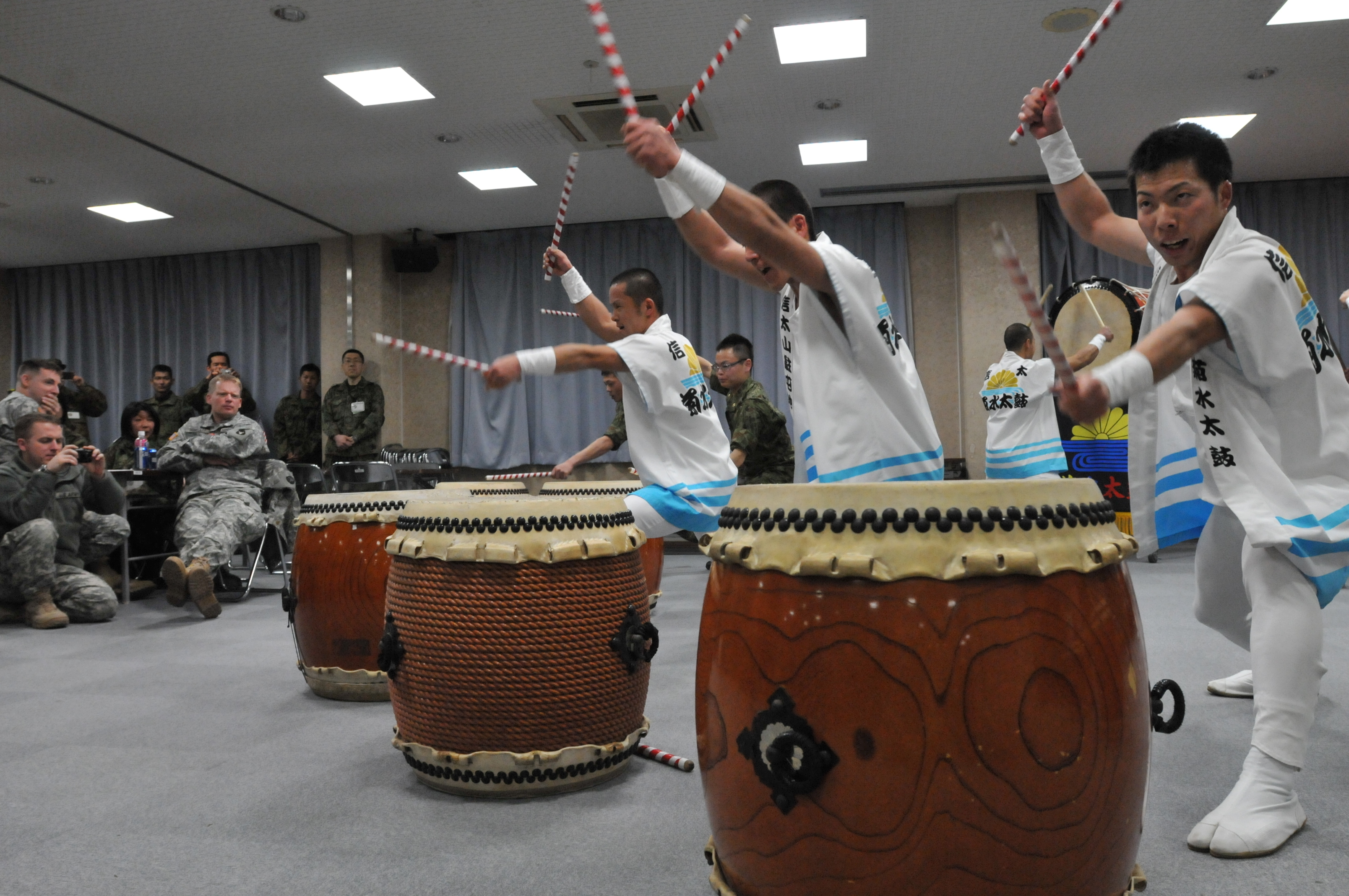 Japan Ground Self-Defense Force soldiers give a Taiko drum performance for fellow Japanese soldiers and U.S. Soldiers with the 34th Infantry Division as part of a cultural exchange event for exercise Yama Sakura 61 at Camp Itami, Osaka, Japan, Jan. 27, 2012. Yama Sakura is an annual, bilateral command post exercise between the U.S. military and the Japan Ground Self-Defense Force that focuses on the bilateral and joint planning, coordination, and interoperability of ground-based elements of the U.S./Japan security alliance.